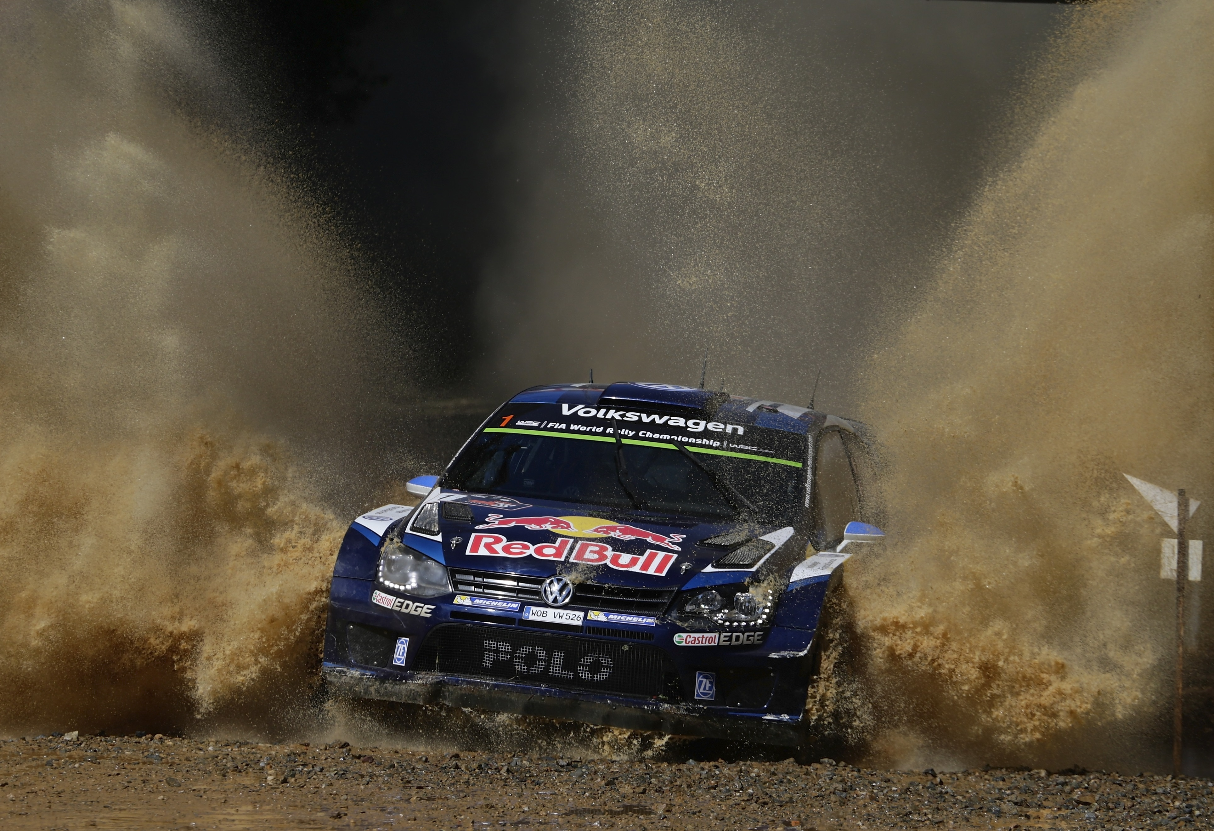 Sébastien Ogier and co-driver Julien Ingrassia in their Volkswagen Polo R WRC at the 2015 Rally Australia.